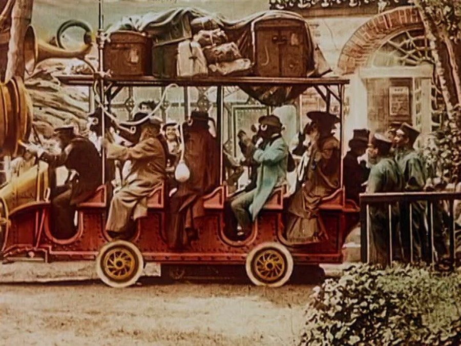 Scene from a hand-colored print of Georges Méliès's 1904 film The Impossible Voyage.